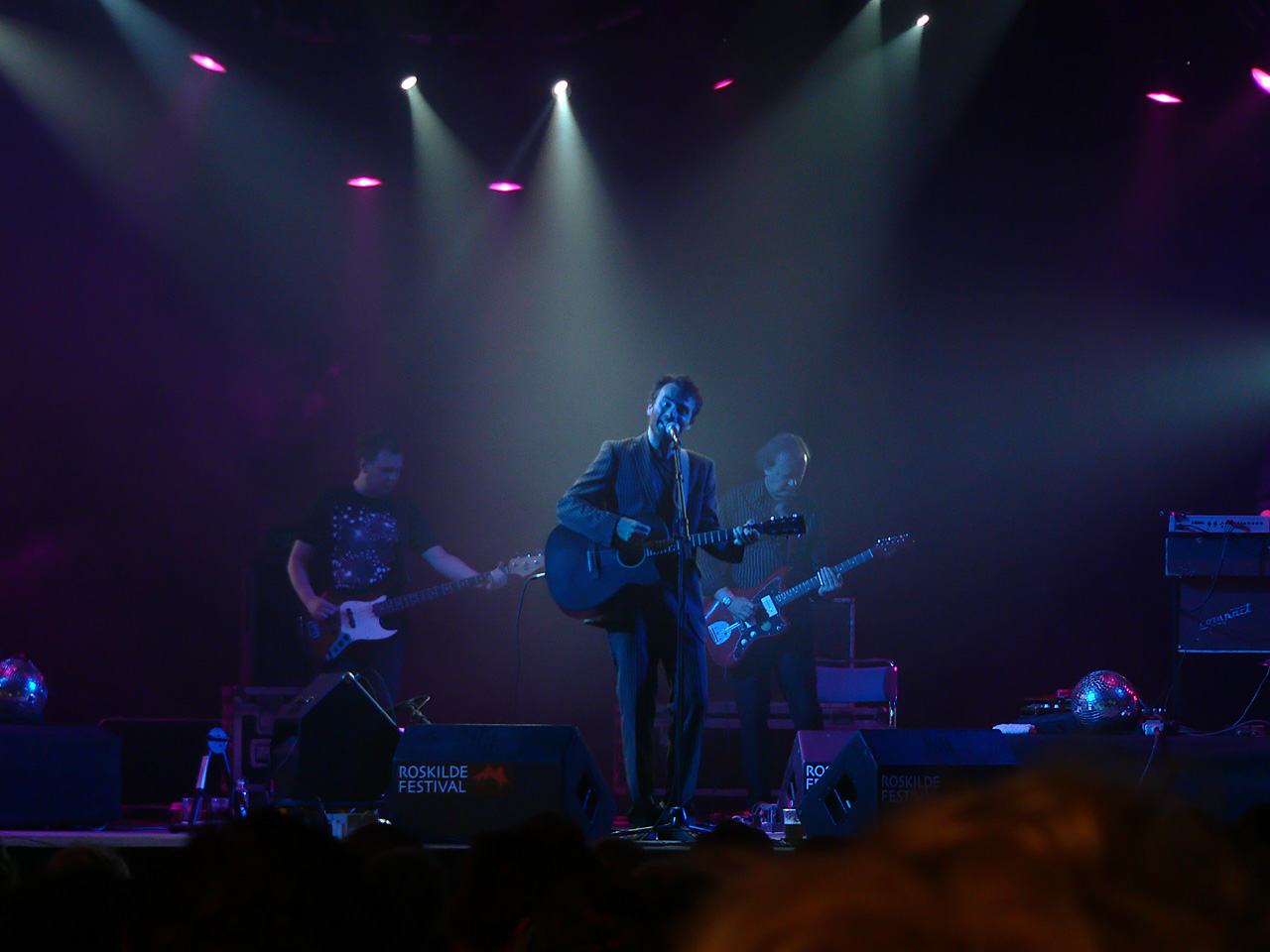 Michael Simpson on Roskilde Festival 2005